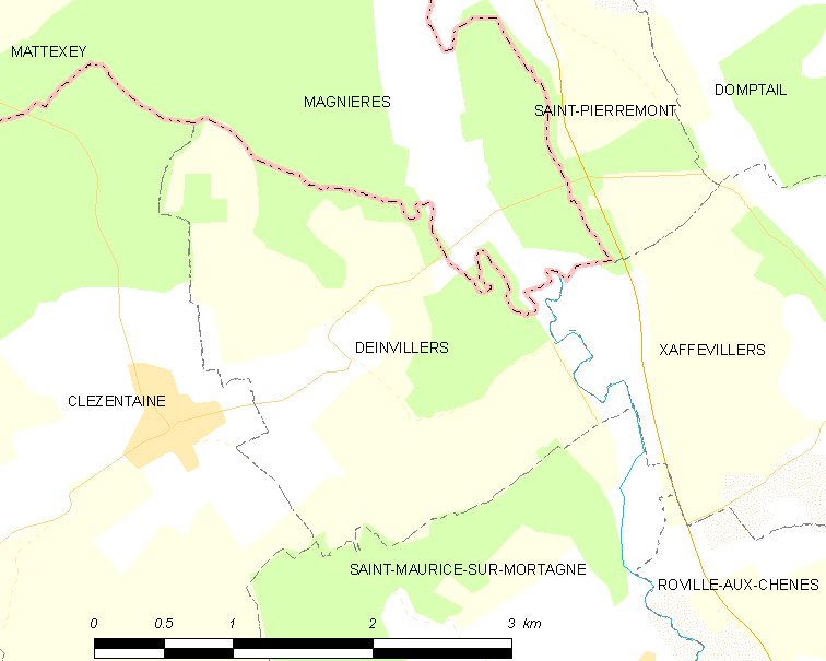 Map of French municipality Deinvillers